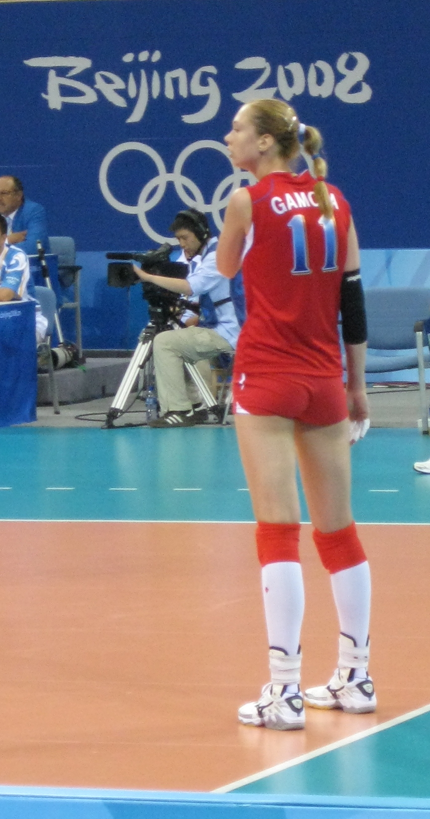 Yekaterina Gamova(Russian: Екатерина Александровна Гамова) (born October 17, 1980 in Chelyabinsk) is a Russian volleyball player. She was a member of the national team that won the gold medal at the 2006 FIVB Women's World Championship, and the silver medal in both the Athens 2004 and Sydney 2000 Olympic Games.